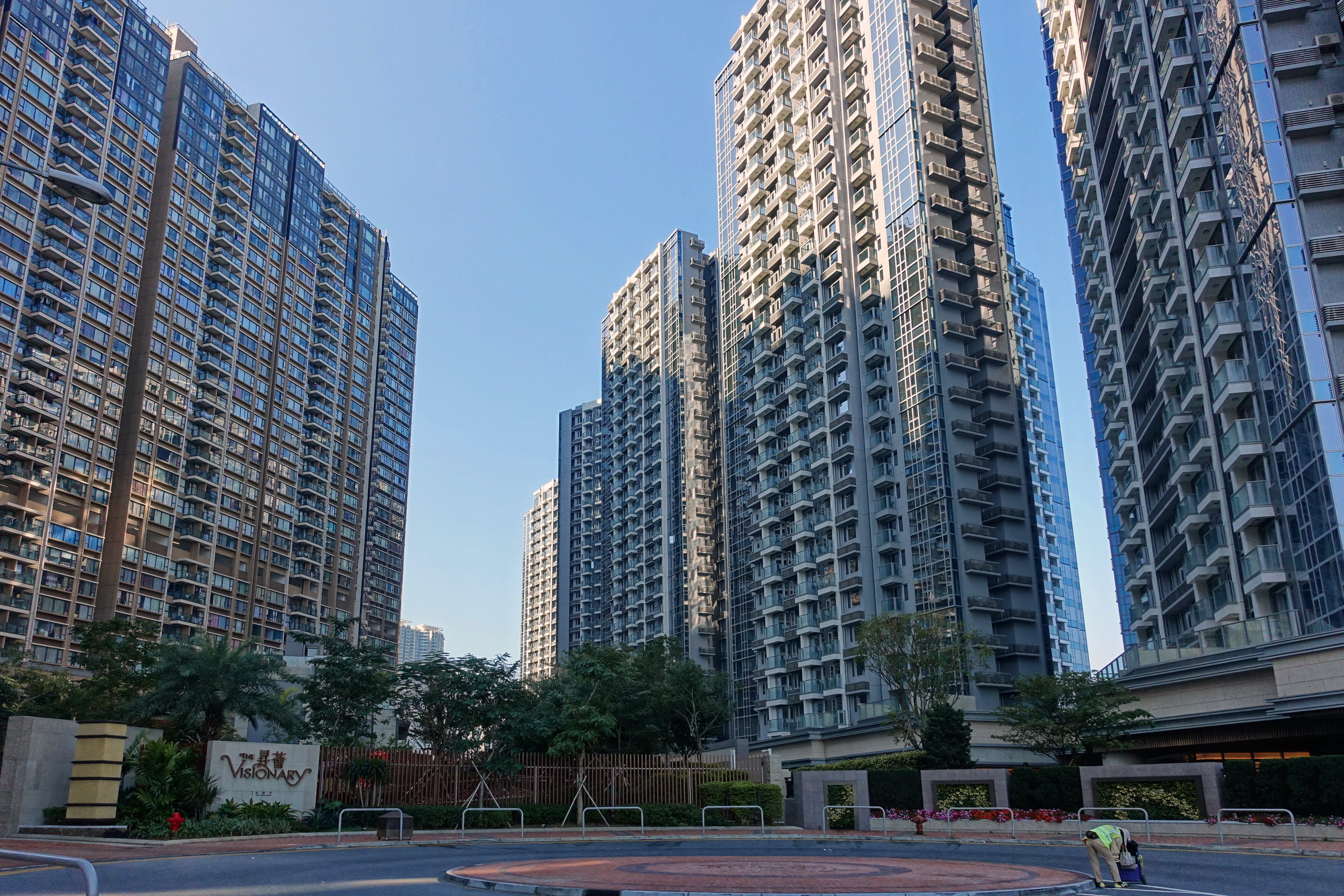 The Visionary (left) and Century Link (right), Tung Chung, Hong Kong.